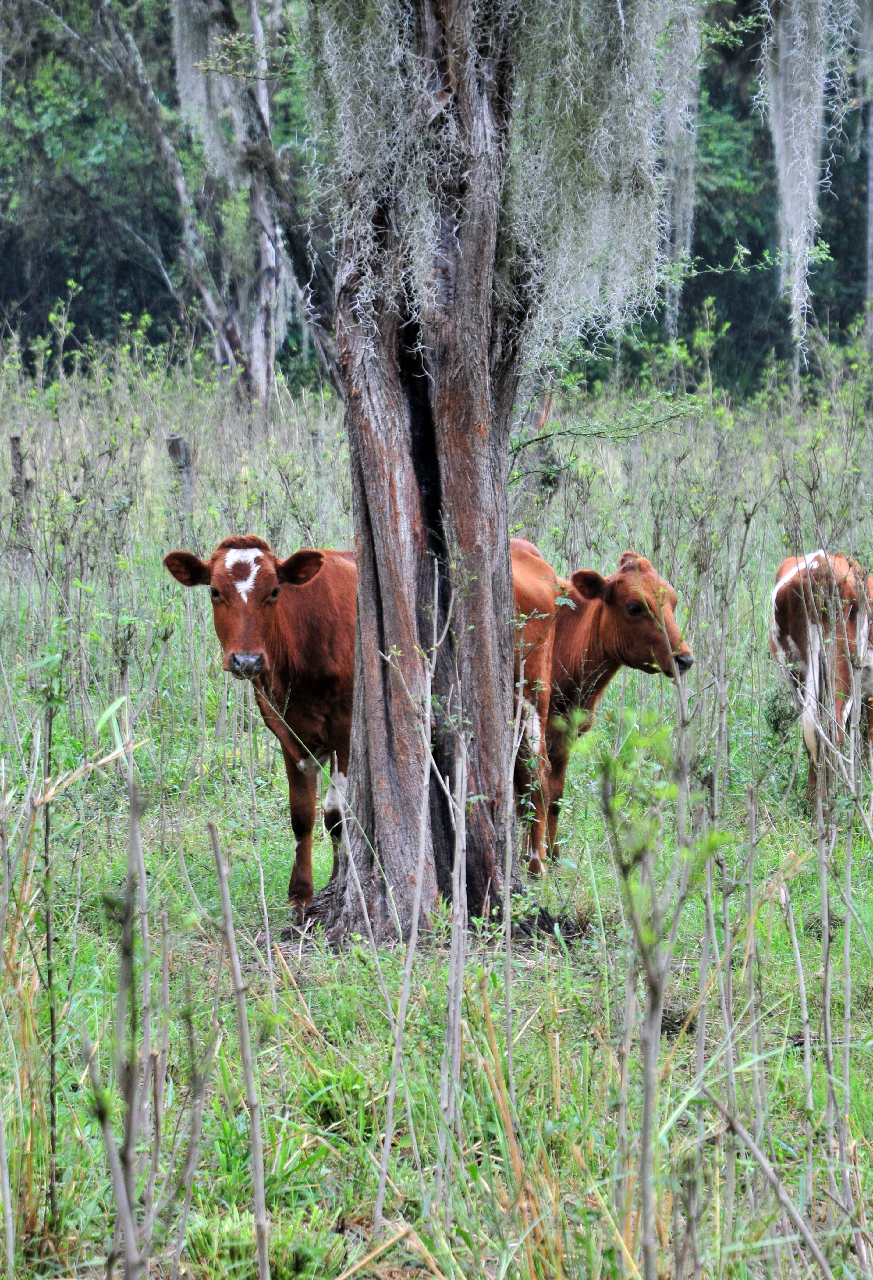 Pic by Neil Palmer (CIAT). A perfect example of eco-efficient agriculture, provided by a CIPAV silvo-pastoral system at Reserva Natural El Hatico, familia Molina Durán, near Palmira, Colombia.